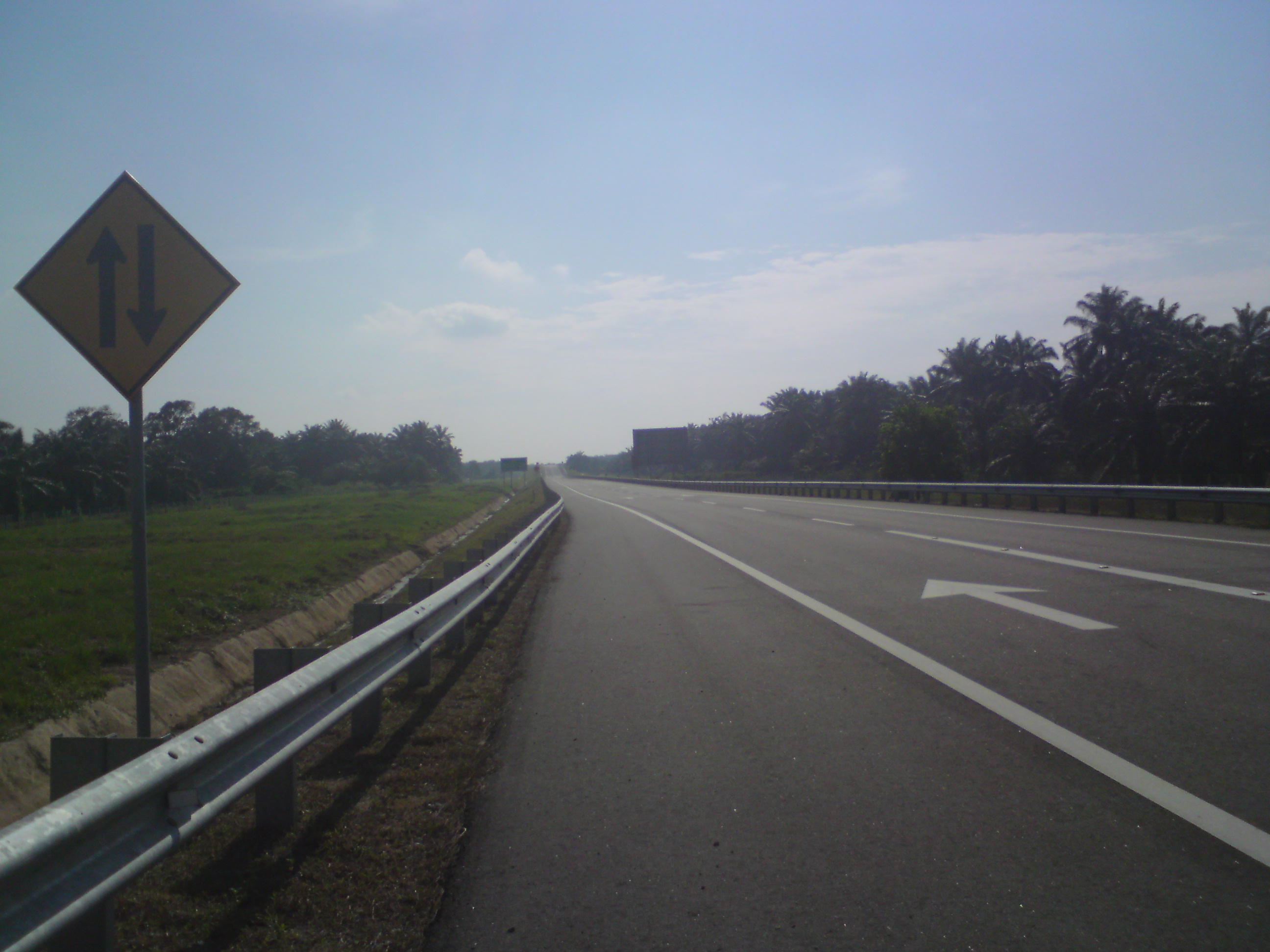 The two-lane section of the South Klang Valley Expressway E26 in Carey Island, Malaysia.